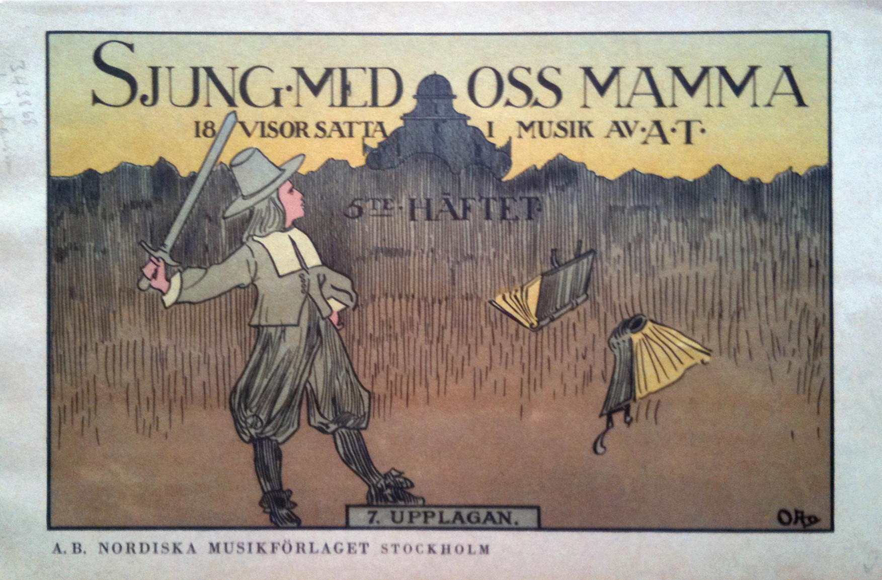 Songbook cover of Alice Tegnér: "Sjung med oss, Mamma!", part 5